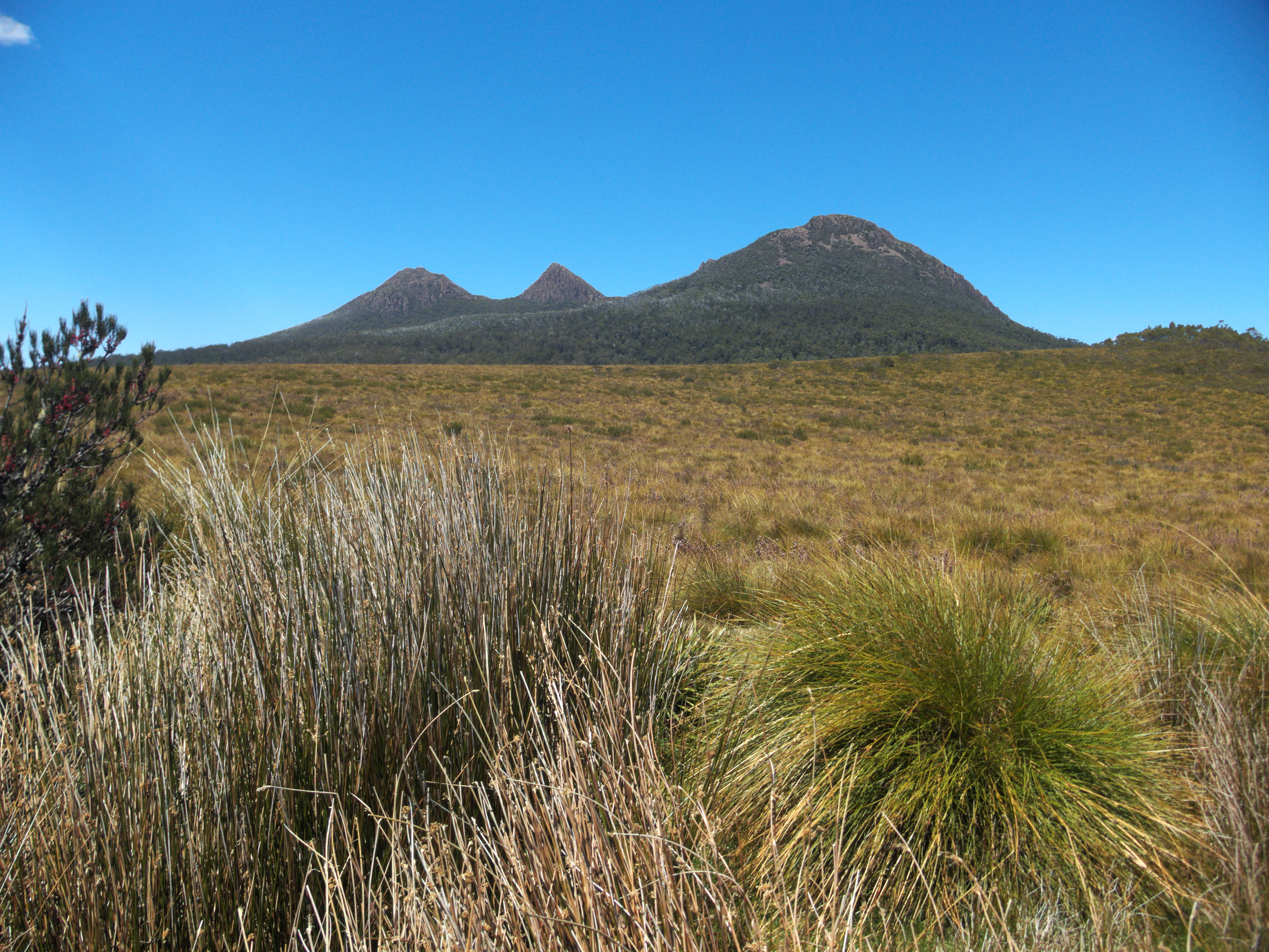 View south-east from the East-West Divide / King William Saddle parking area on the Lyell Highway, Tasmania. Buttongrass plain looking towards three mountain peaks of the King William Range, from left: Mount King William I, Milligans Peak, and Mount Pitt ([1] confirms the mountain identification).